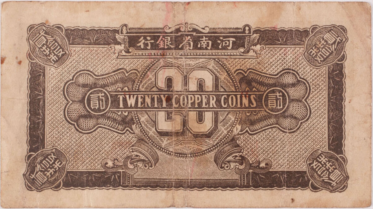 Banknote 20 copper cash, Provincial Bank of Honan, 1923 (rev)